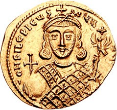 Solidus of Philippicus Bardanes.